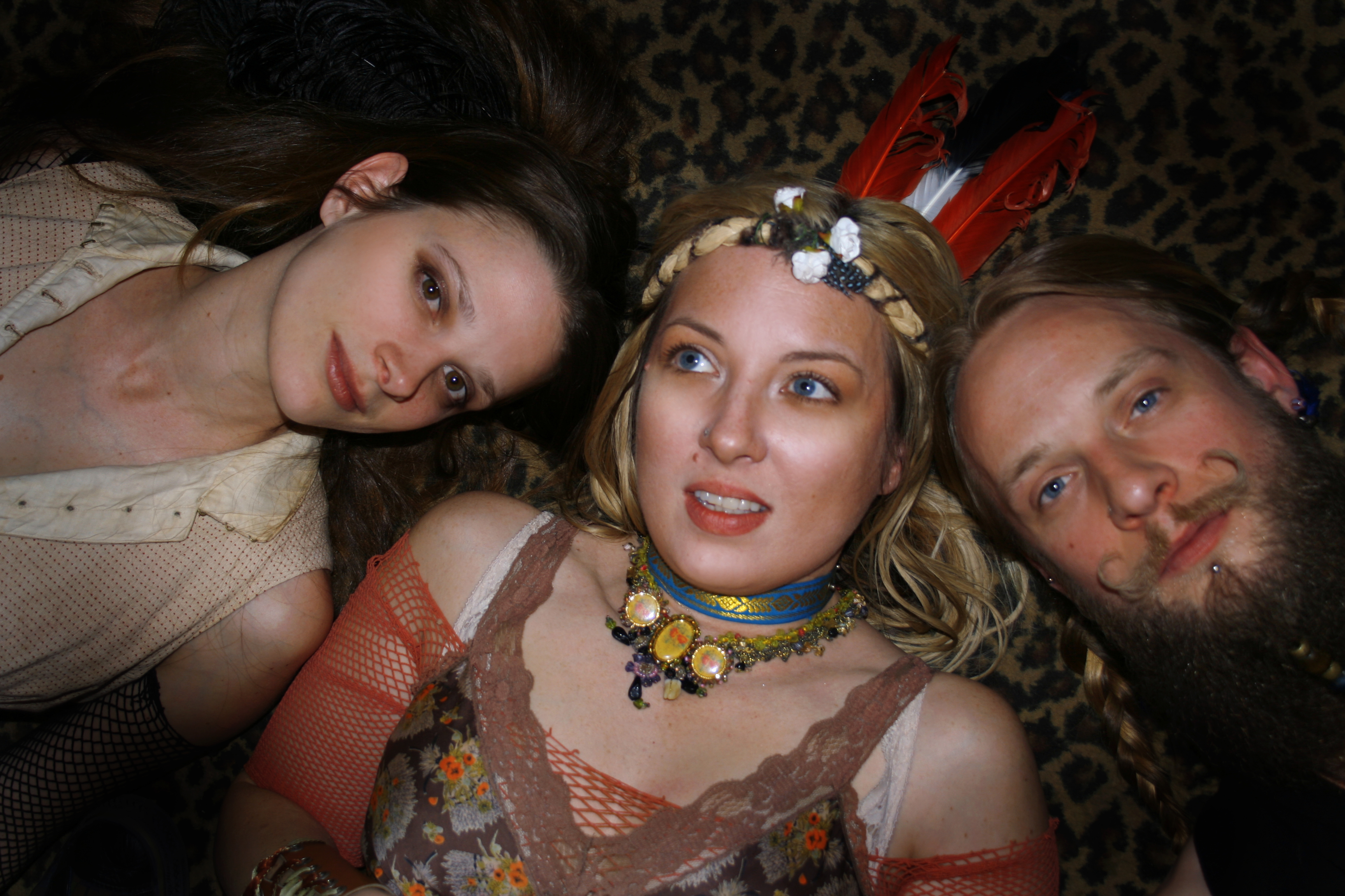 New York musical ensemble Rasputina. From left to right, Sarah Bowman, Melora Creager, Jonathon Tebeest.